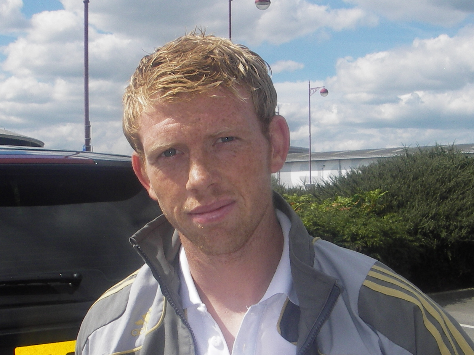 Paul Green, Derby County player from July 2008.